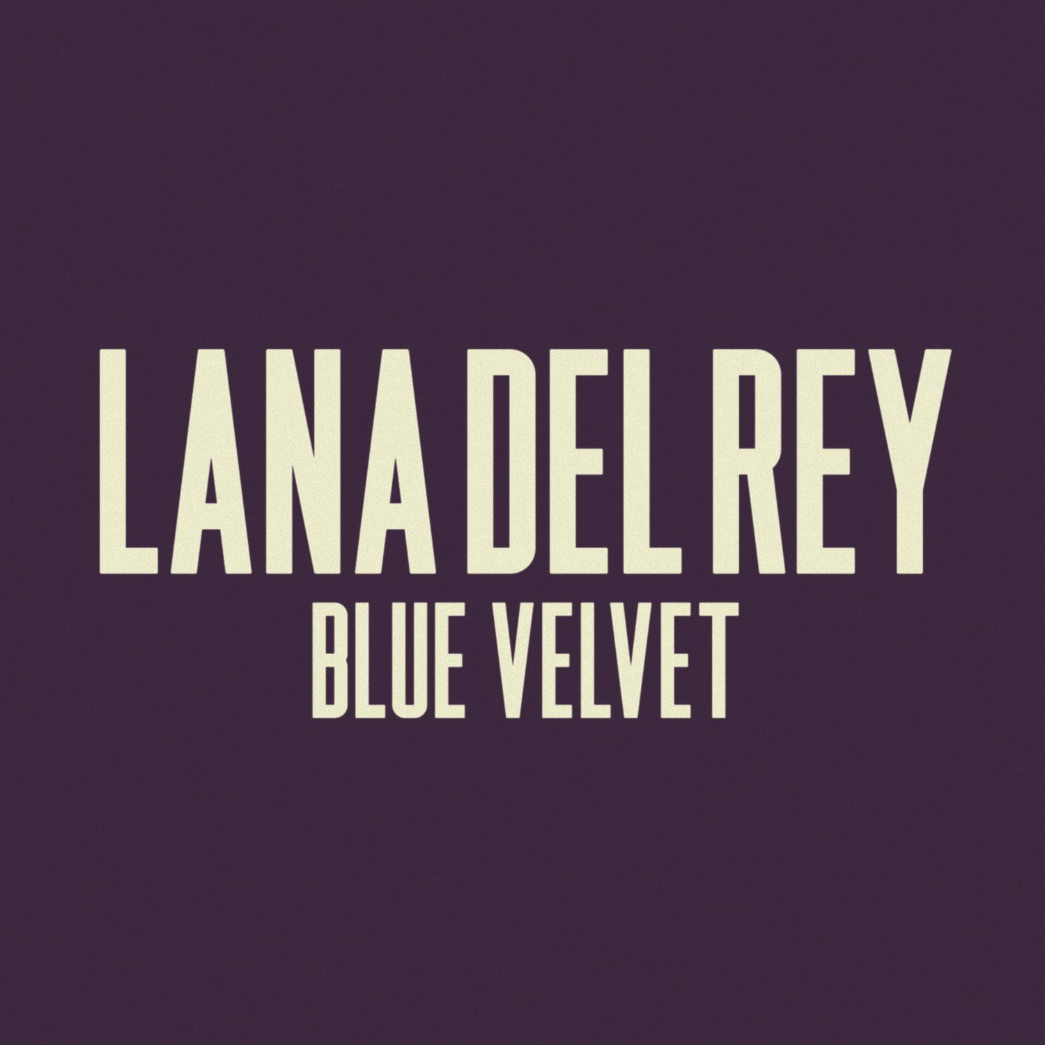 Cover art of Blue Velvet by Lana Del Rey.